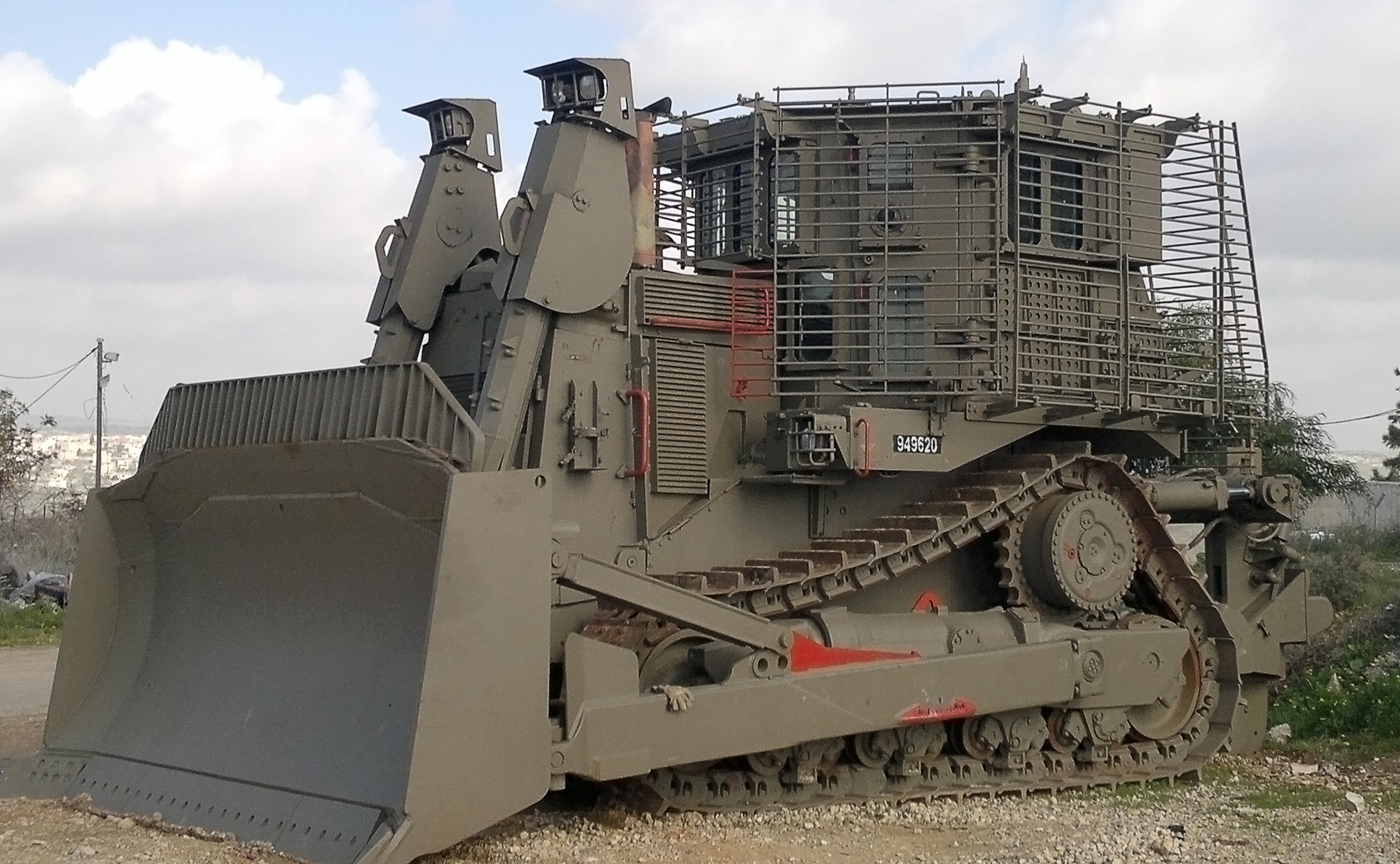 The Israeli Armored CAT D9R